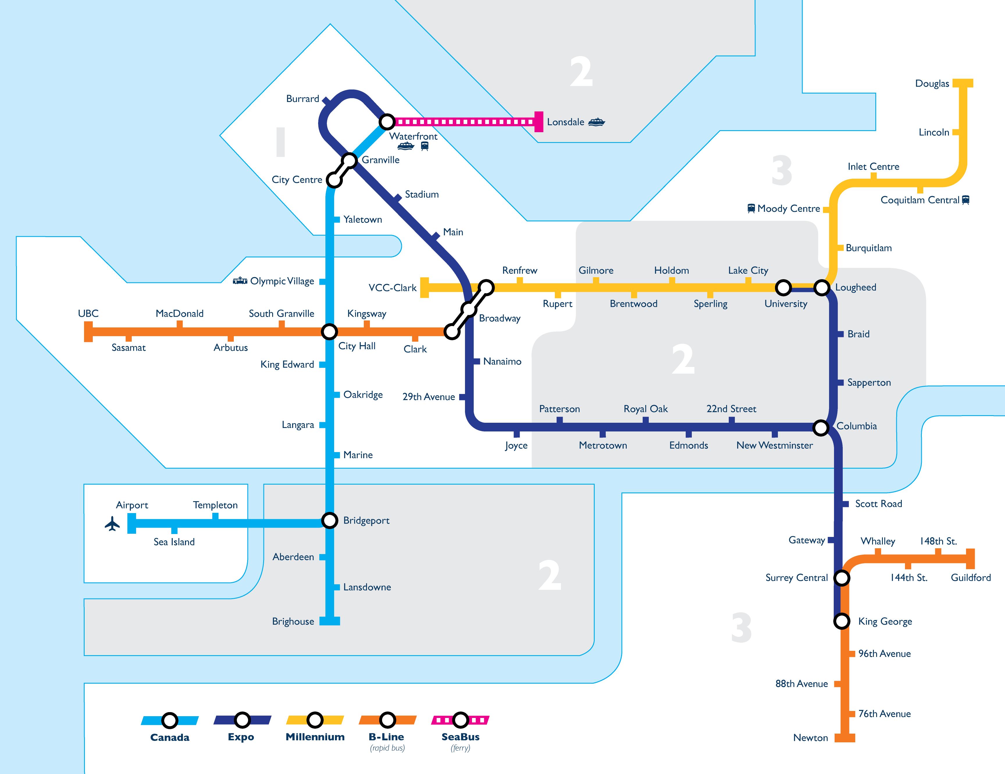 Map of Vancouver's Skytrain, Seabus and Rapid Bus network.